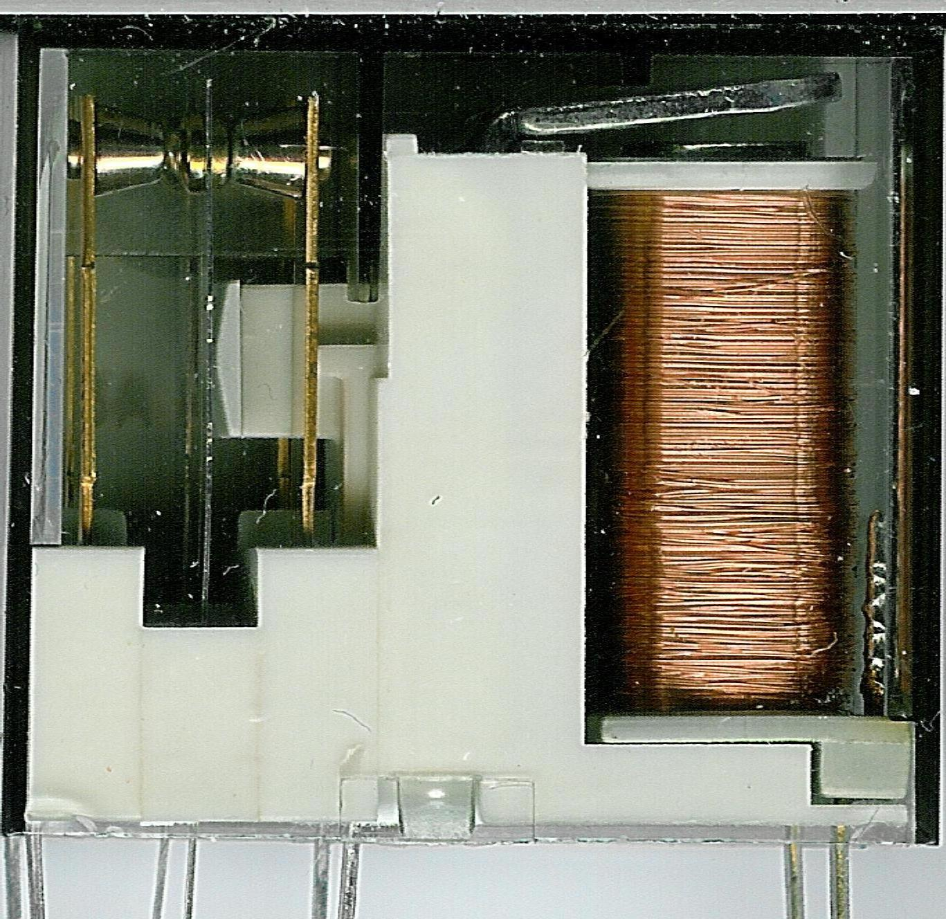 2NC/NO Relay picture with scanner on 1200 dpi resolution.